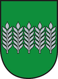 Coat of arms of Krottendorf-Gaisfeld, Styria